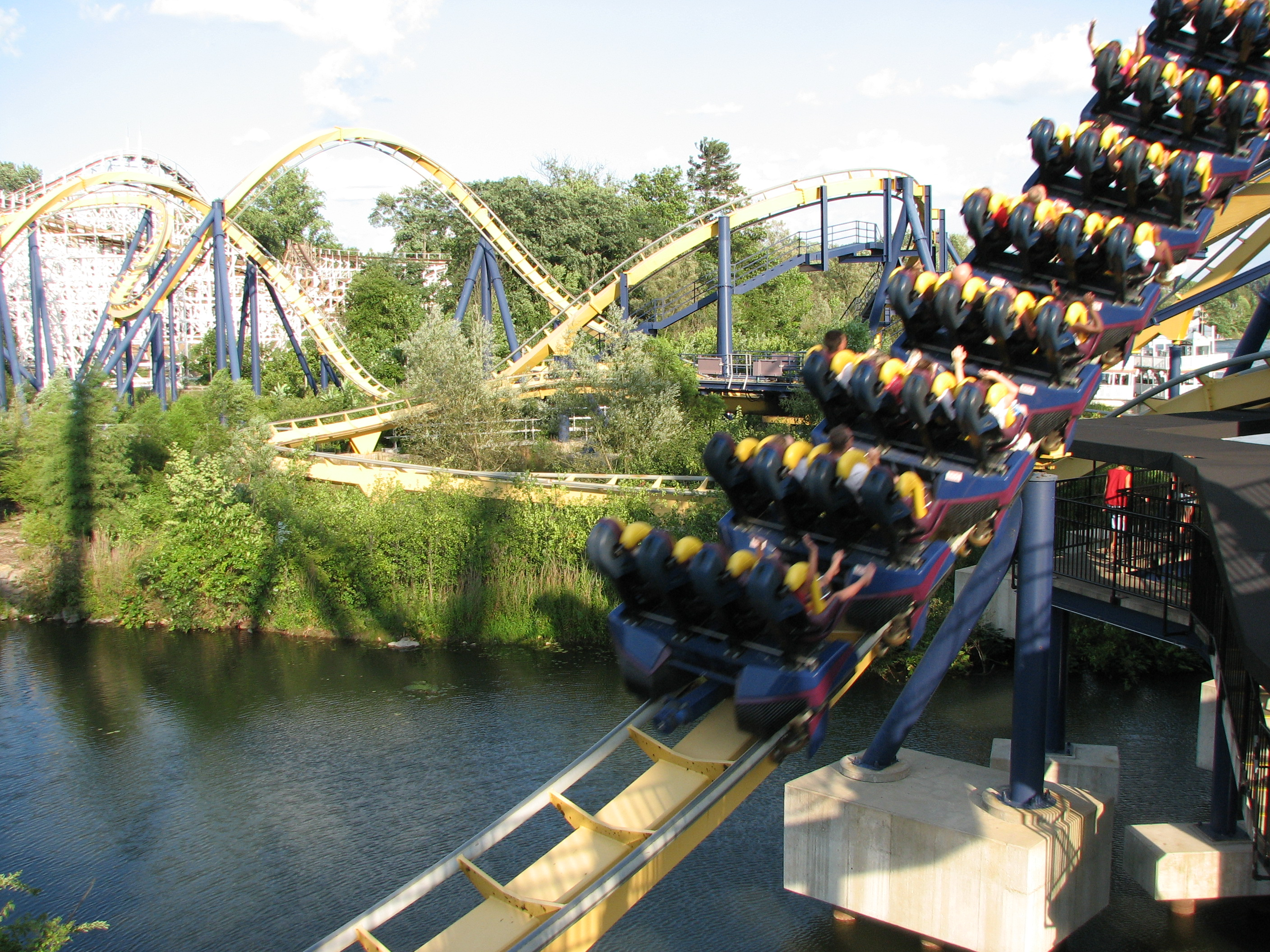 Dominator back up and running